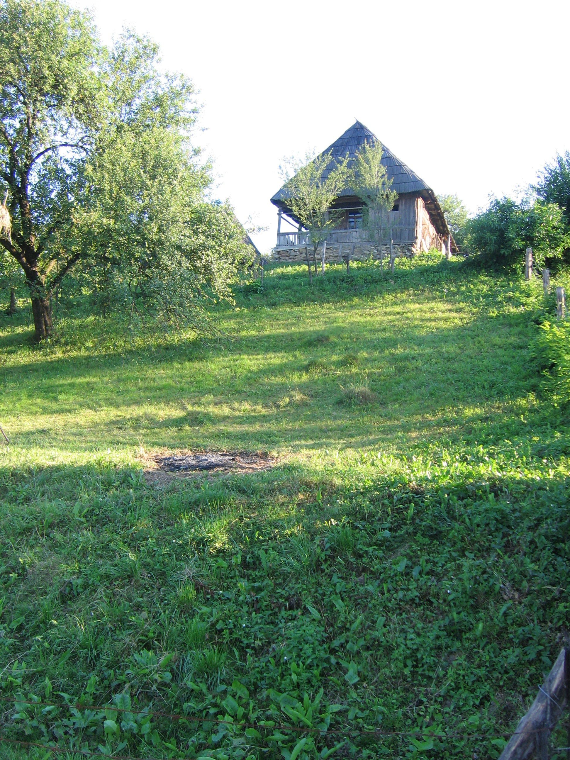 Traditional house from Maramures, similar to cnesial residence